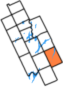 Map of Victoria County (Now city of Kawartha Lakes), with former township of Emily highlighted in orange.